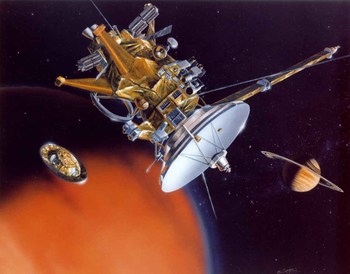 This artist's conception of the Cassini orbiter shows the Huygens probe separating to enter Titan's atmosphere. After separation, the probe drifts for about three weeks until reaching its destination, Titan. Equipped with a variety of scientific sensors, the Huygens probe will spend 2-2.5 hours descending through Titan's dense, murky atmosphere of nitrogen and carbon-based molecules, beaming its findings to the distant Cassini orbiter overhead. The probe could continue to relay information for up to 30 minutes after it lands on Titan's frigid surface, after which the orbiter passes beneath the horizon as seen from the probe.